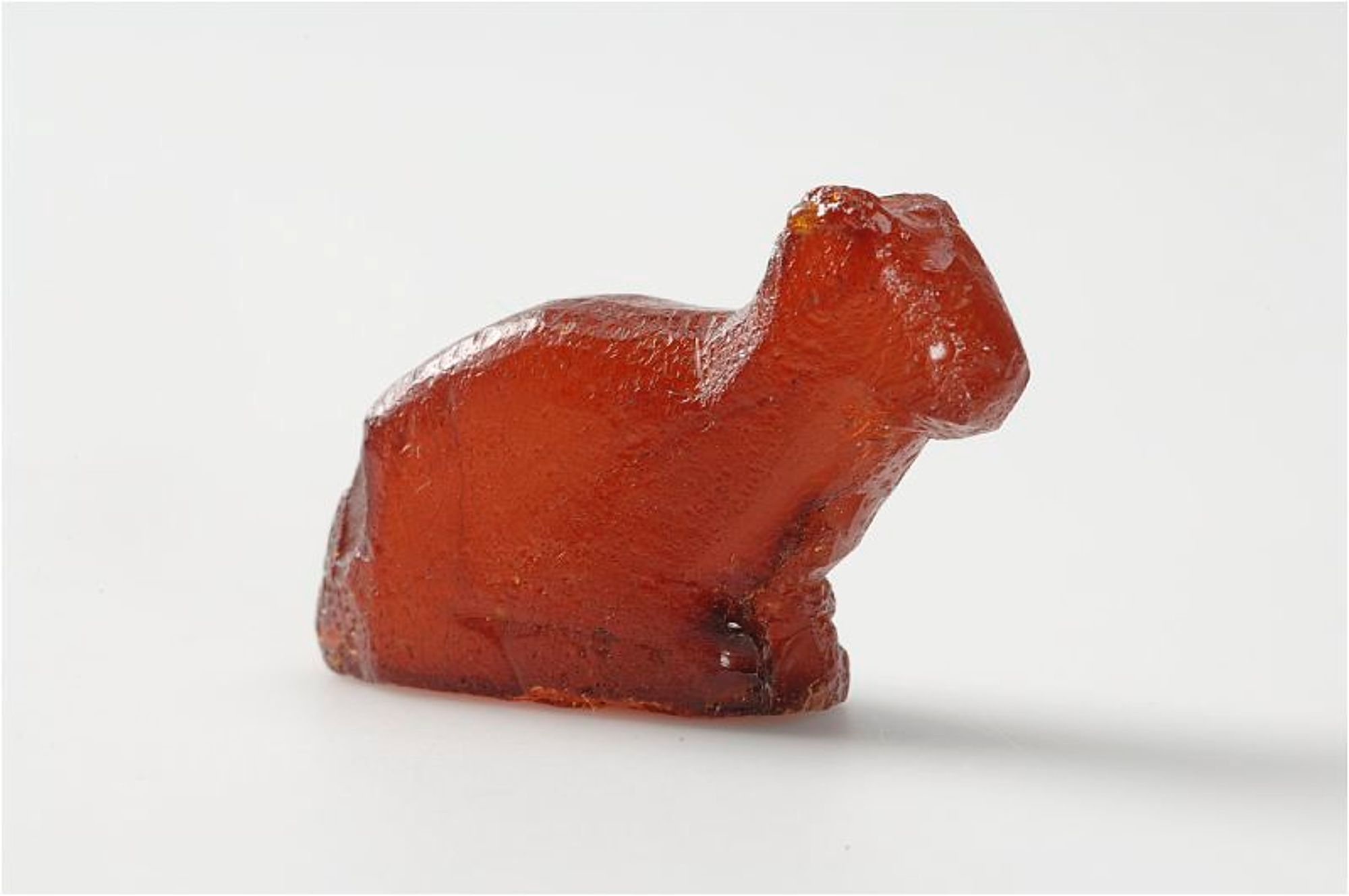 figurine, animal figurine, cat, amber